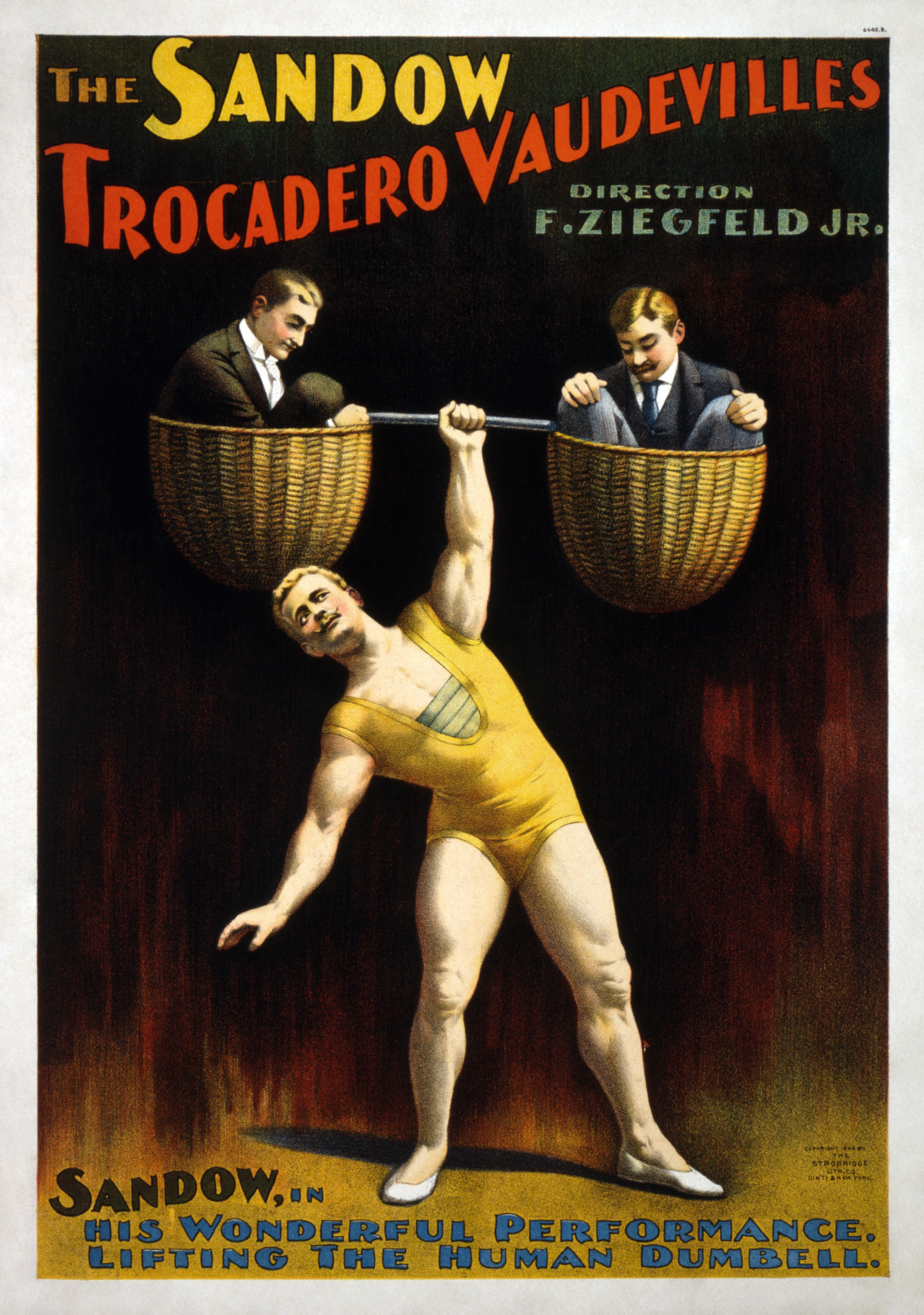 The Sandow Trocadero Vaudevilles Direction F. Ziegfeld, Jr. Sandow, in his Wonderful Performance. Lifting the Human Dumbell [sic].